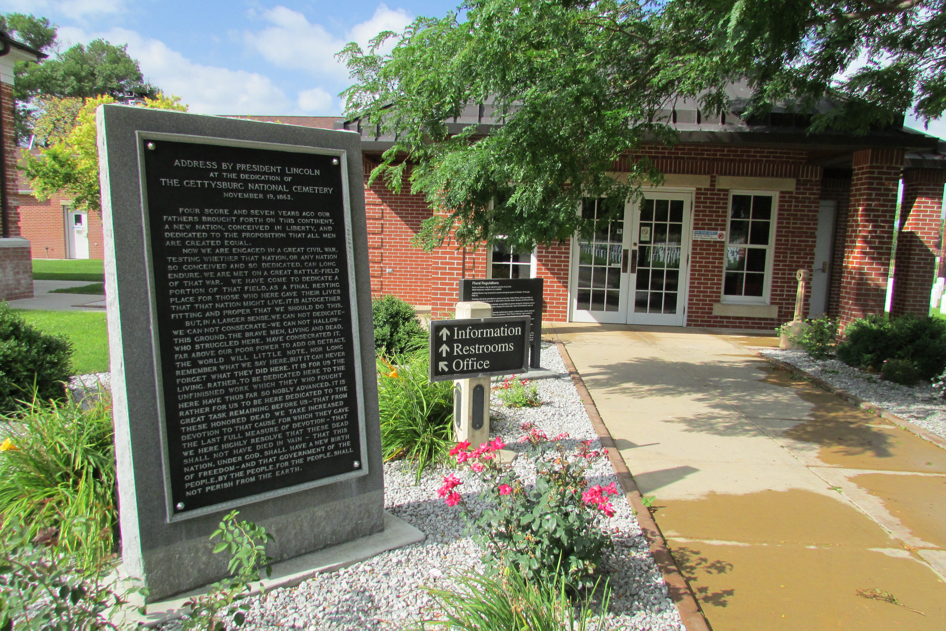 Gettysburg Address at Fort McPherson Nat'l Cemetery, Maxwell, Nebraska